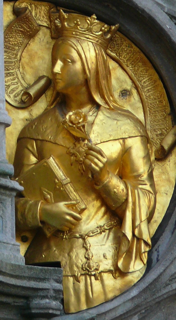 Guilded statue of Mary of Burgundy on the façade of the Basilica of the Holy Blood in Bruges, Belgium. In the medallions are the guilded sculptures of her husband Holy Roman Emperor Maximilian I, and her stepmother Margaret of York.